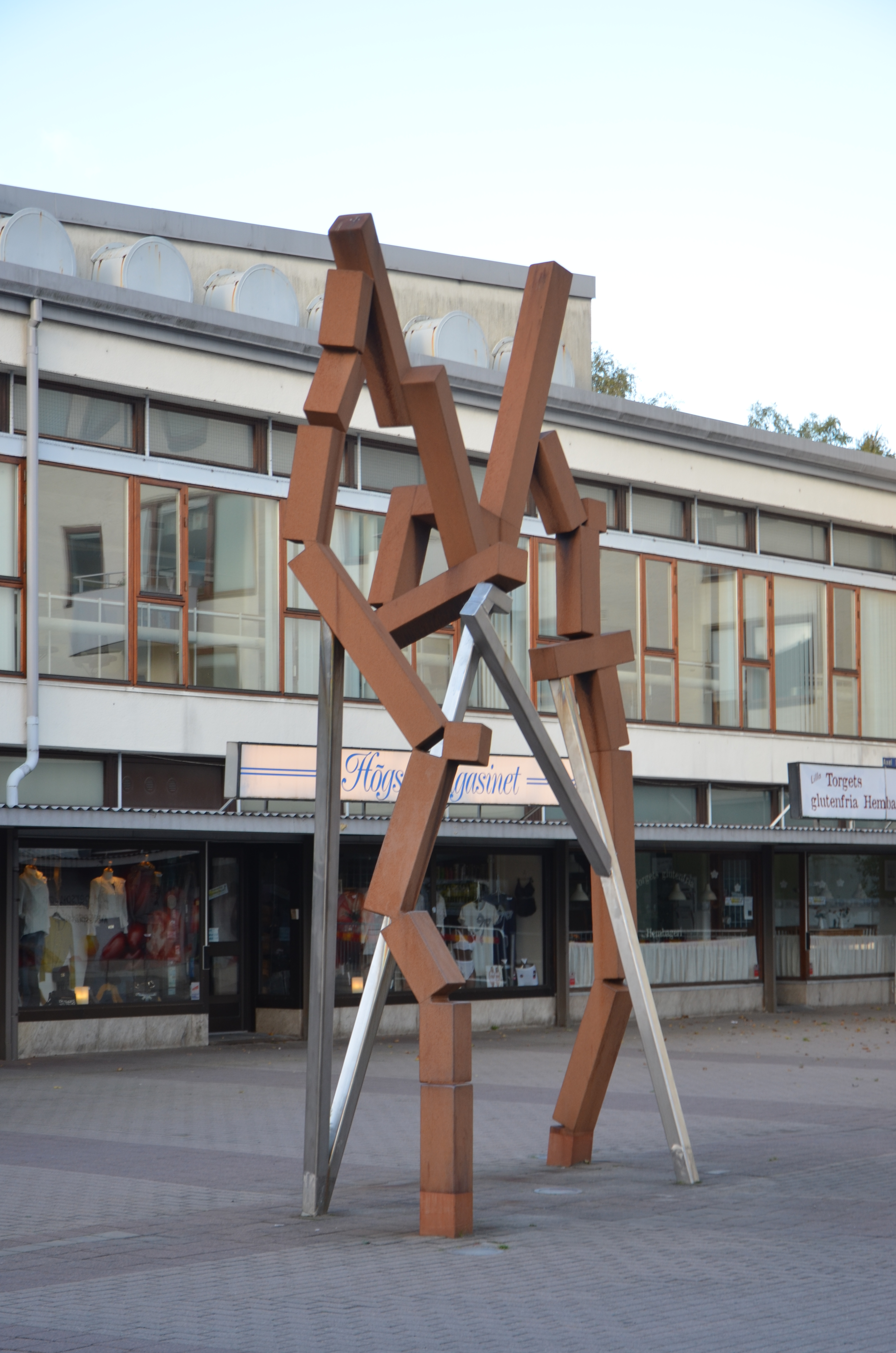 Ur väggen av Yvonne T Larsson, Högsbo torg i Göteborg